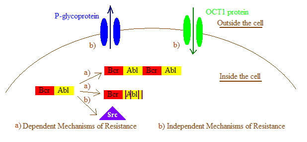 Overview of the most common mechanisism of resistance to first generation tyrosine kinase inhibitors.